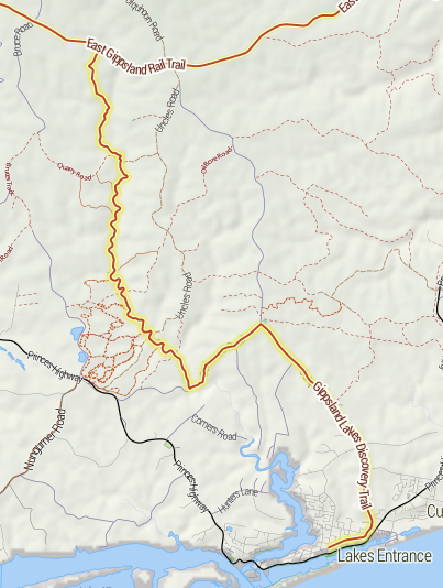 Map of Gippsland Lakes Discovery Trail. Cartography by Steve Bennett, data by OpenStreetMap contributors.